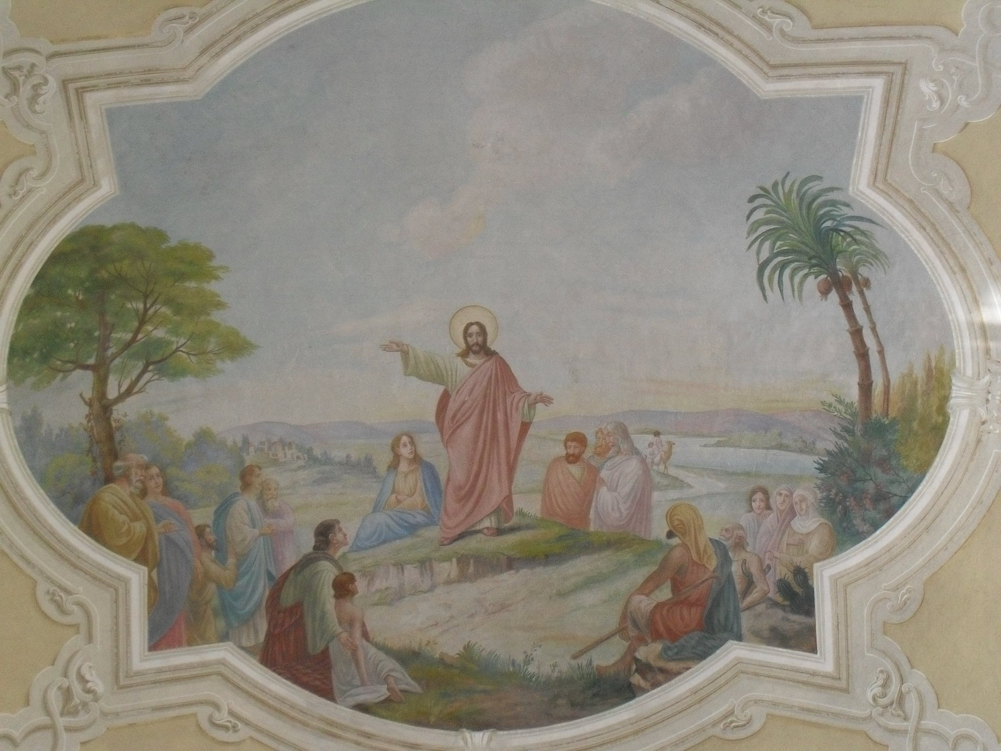 Sermon on the Mount (Prekmurščina: Govor na brejgi) mural in the Istvanfalvian Church